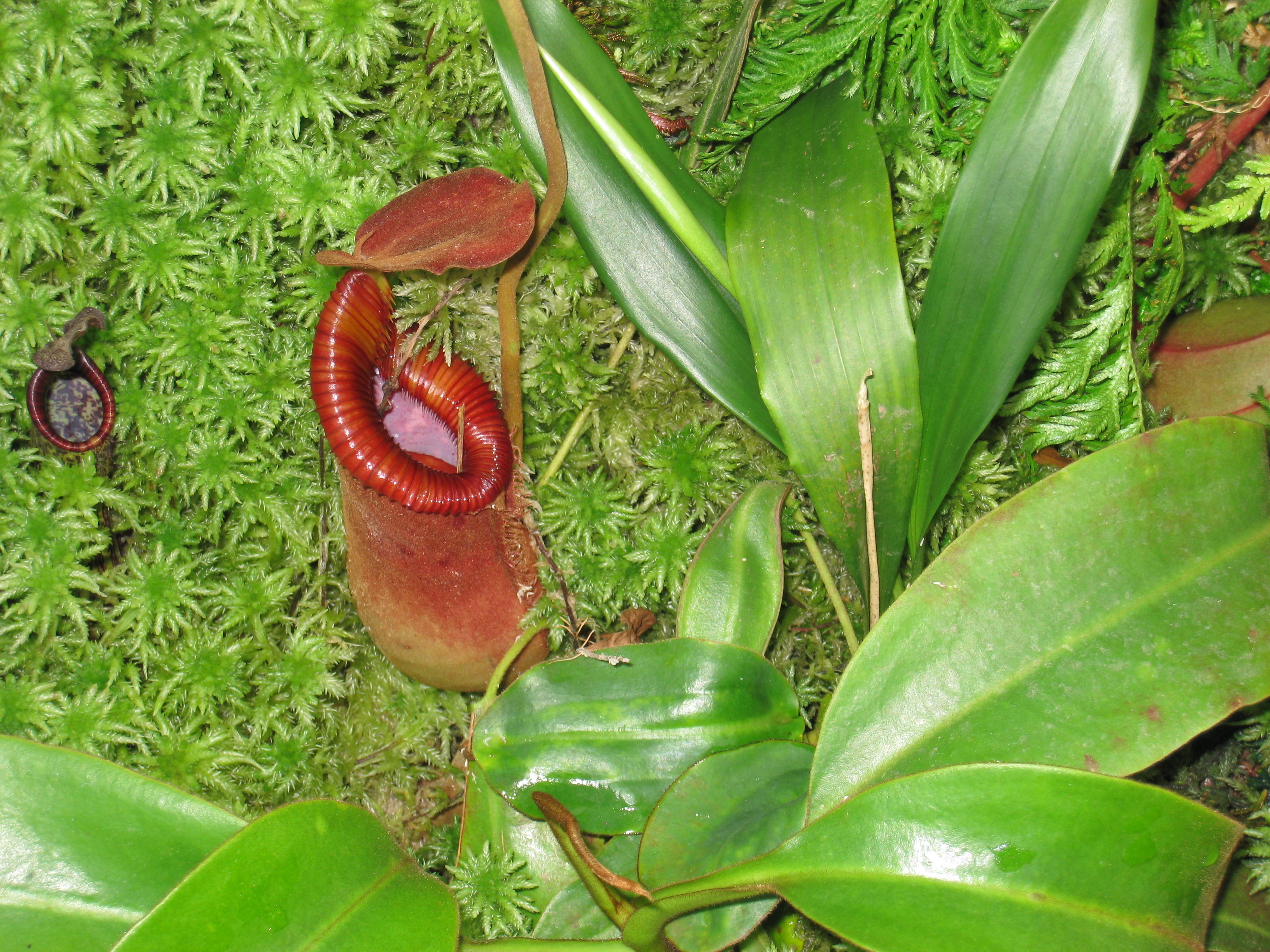 Nepenthes, Atlanta Botanical Garden, Atlanta, Georgia, USA.